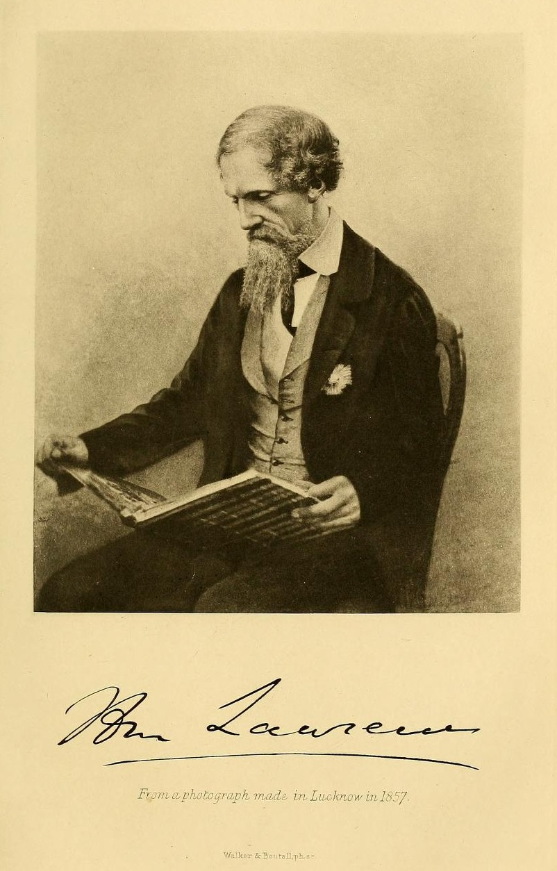 Sir Henry Montgomery Lawrence (June 28, 1806 - July 4, 1857)